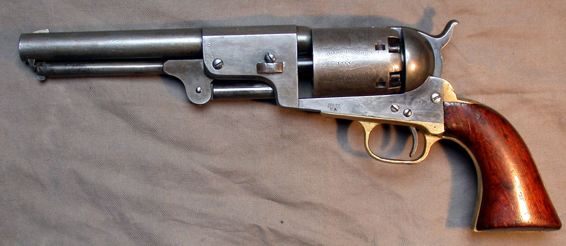 Colt Dragoon Mod 1848 Government issue U.S. stamping